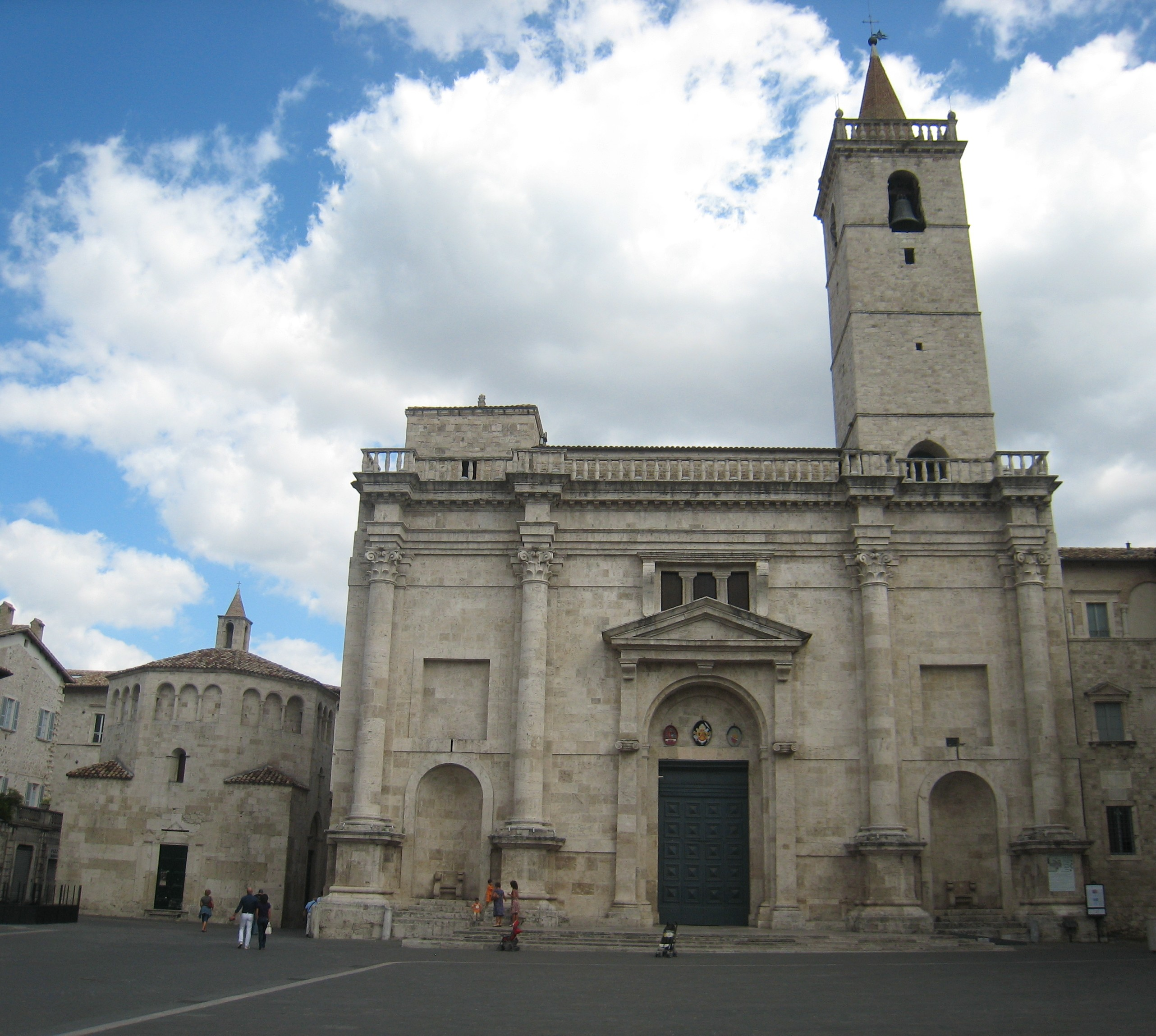 Ascoli Piceno - Cathedral